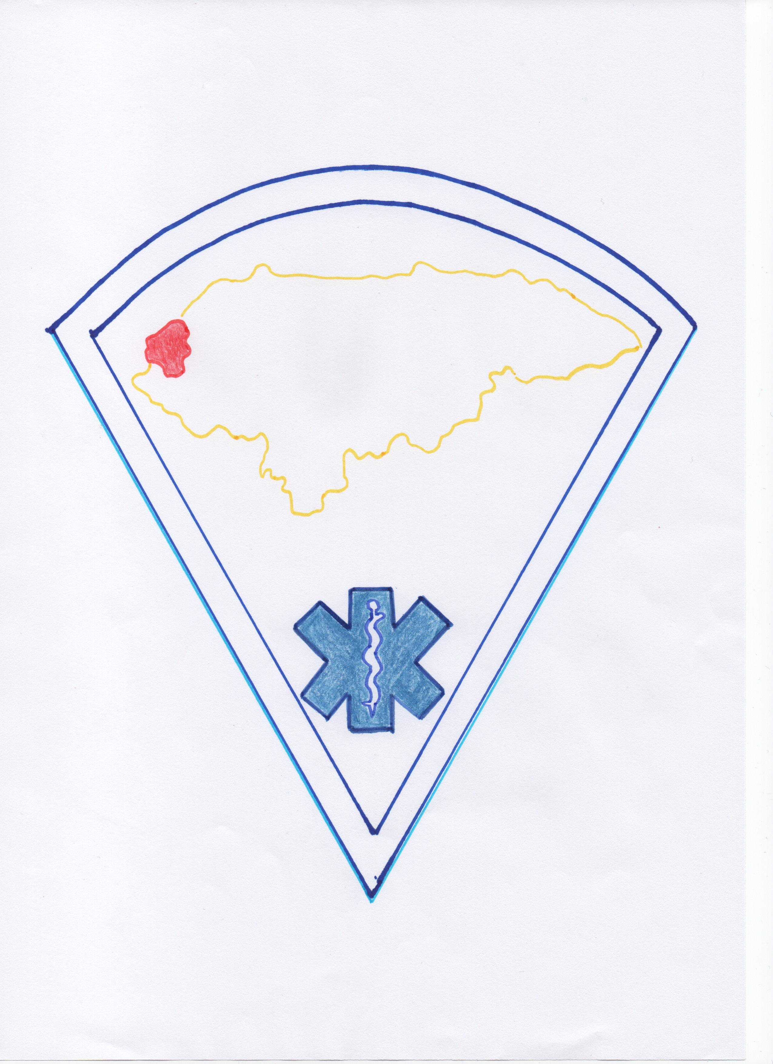 Foundation paramedics